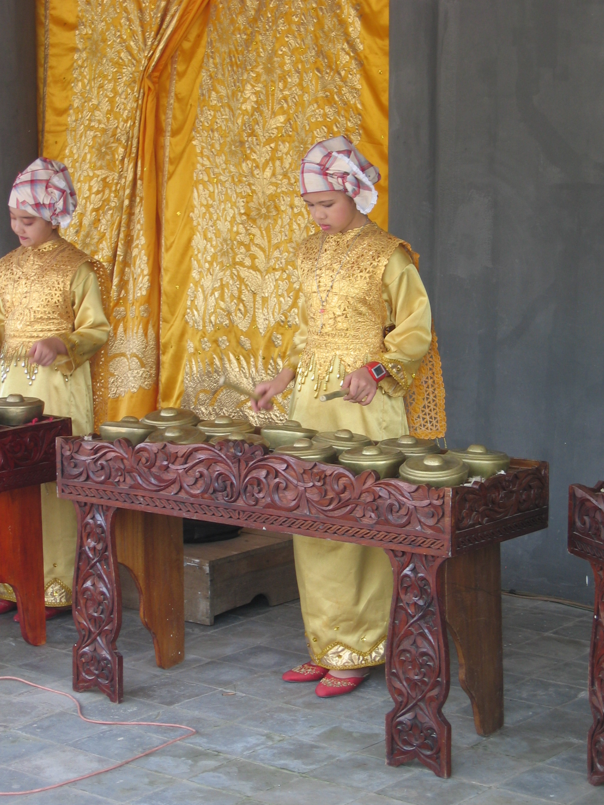 A talempong performance.